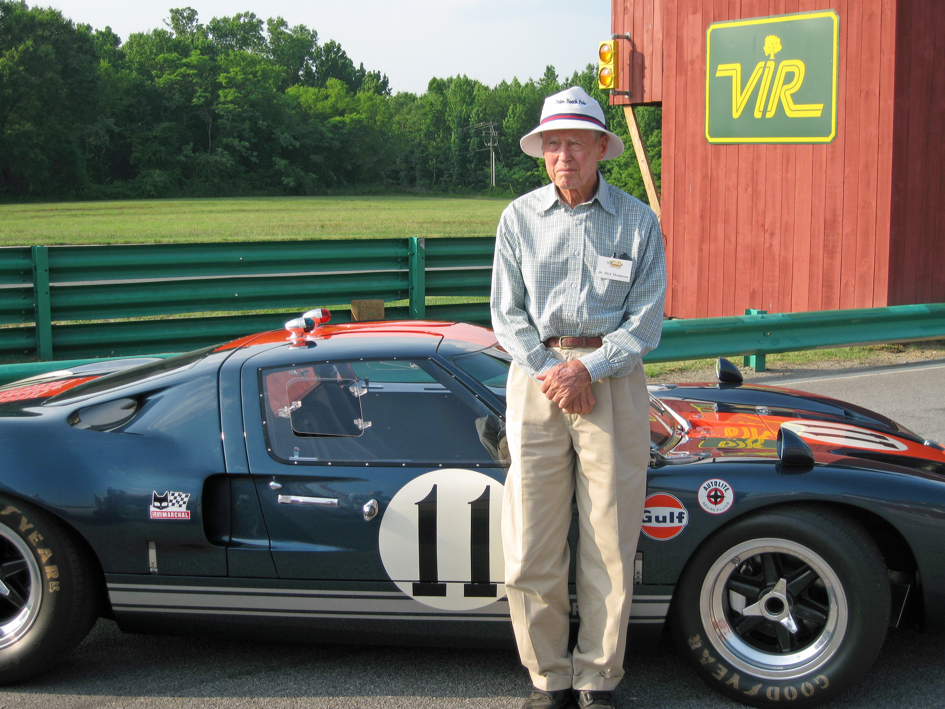 Legendary Corvette Driver Returned to VIR Danville, Va. (April 4) – Dr. Dick Thompson, the “Flying Dentist” who drove Corvettes and Porsches to numerous victories in sports car races of the 50s and 60s returns to one of the classic race tracks of the era, VIRginia International Raceway, for that track’s 50th Anniversary Celebration, the Heacock Classic Gold Cup Historic Race, June 8, 9 and 10. The “Flying Dentist” started racing in 1956, winning the Sports Car Club of America’s national championships in that year, plus 1957, 1960, 1961 and 1962 in A, B and C Production classes. He won a feature race at Sebring in class in 1957, drove a Corvette Grand Sport to a Watkins Glen victory in 1963, the same year he captured third at Daytona. Again at Daytona, he won GT in 1970. Putting his knowledge of the cars and racing to good use, he wrote The Corvette Guide in 1958, as a handbook for Corvette racers. He was inducted into the Corvette Museum’s Hall of Fame in 2000. While he was best known as a Corvette specialist, Dr. Thompson also drove other cars, usually Porsches, and drove both marques at VIR’s first weekend of racing. At VIR, he won the B Production heat race in a Corvette and took third in a Porsche Carrera GT in the F Sports class. Thompson duplicated those finishing positions in the feature races for those classes. In the weekend’s top race, the 24–lap “Grand Prix” Thompson secured an entry in a Jaguar XKSS and finished fourth overall and in class, behind Carroll Shelby, Walt Hansgen and Charles Wallace, in a Maserati 450S and a pair of newer Jaguar D–types. Dr. Thompson also surprised VIR with a 50th Anniversary present – a donation of the sterling silver trophy he won at the track in 1966. “We are excited and honored to have Dr. Thompson join us for the Gold Cup and are very thankful for the donation of this important piece of VIR history,” said VIR’s General Manager Josh Lief. Web: (Photo by Sherry Lambert)